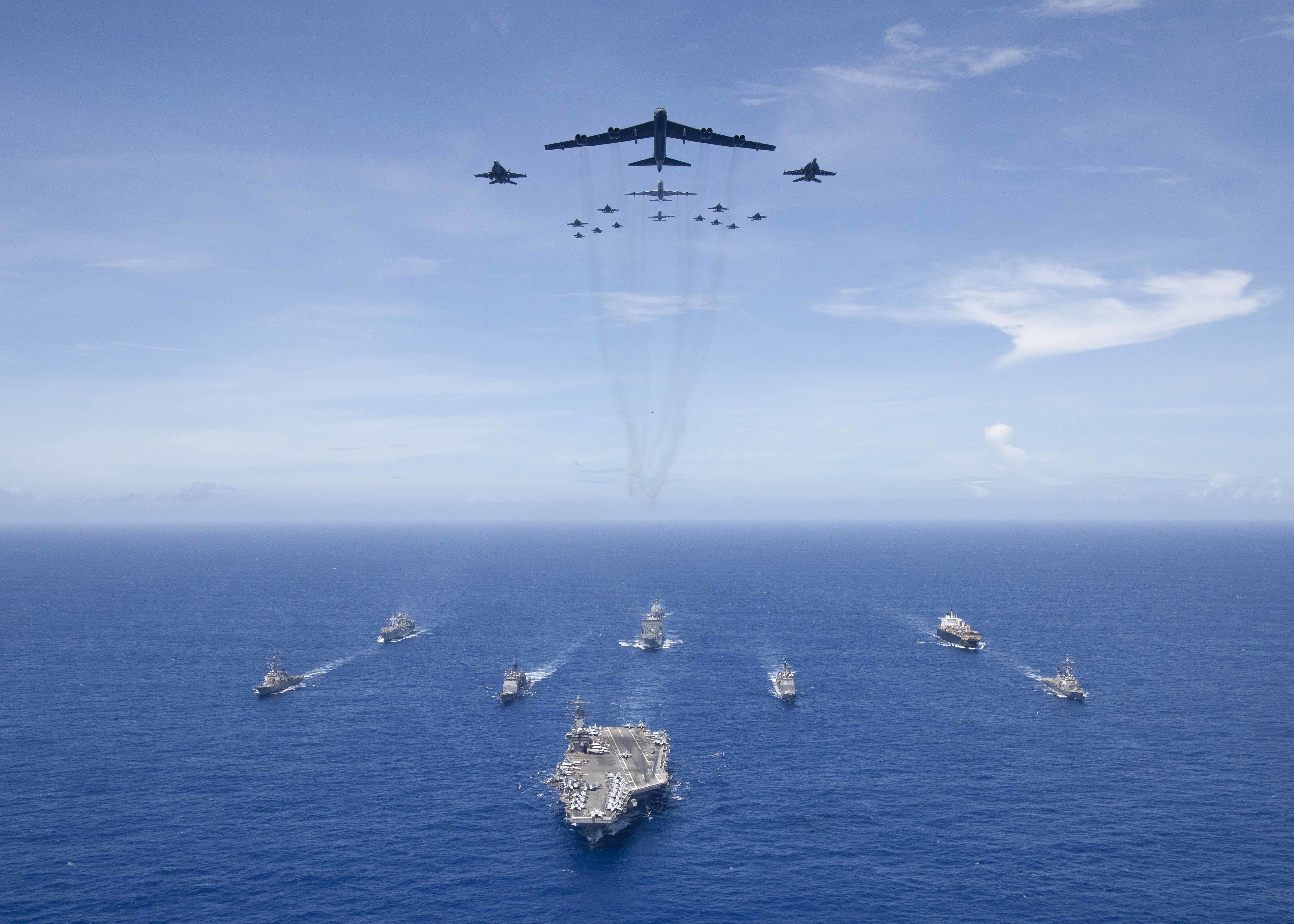 The aircraft carrier USS Ronald Reagan (CVN 76), foreground, leads a formation of Carrier Strike Group Five ships as Air Force B-52 Stratofortress aircraft and Navy F/A-18 Hornet aircraft pass overhead for a photo exercise during Valiant Shield 2018 in the Philippine Sea Sept. 17, 2018. The biennial, U.S. only, field-training exercise focuses on integration of joint training among the U.S. Navy, Air Force and Marine Corps. This is the seventh exercise in the Valiant Shield series that began in 2006. (U.S. Navy photo by Mass Communication Specialist 3rd Class Erwin Miciano)